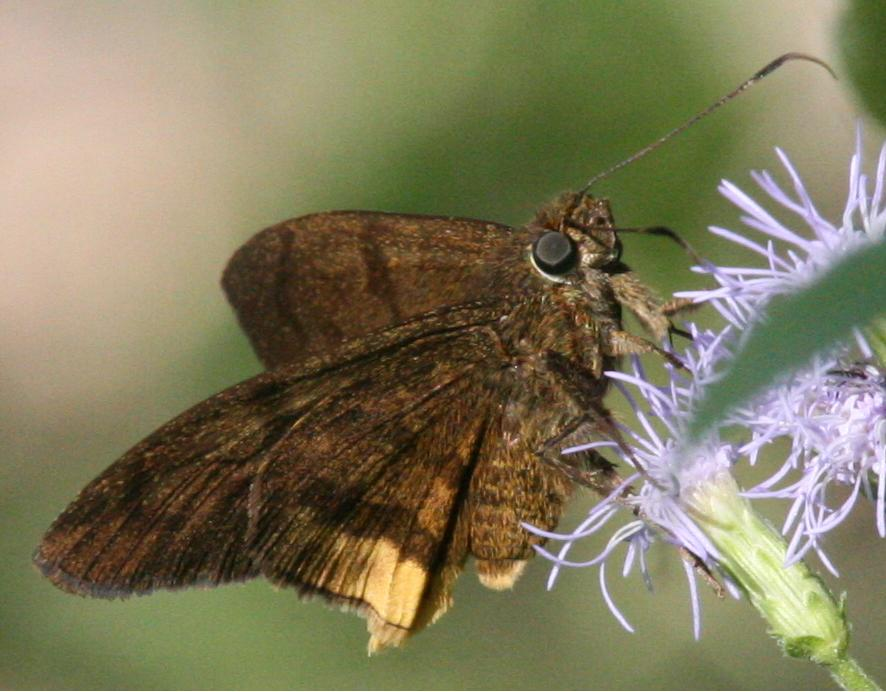 Yellow-tipped Flasher (Astraptes anaphus) ventral